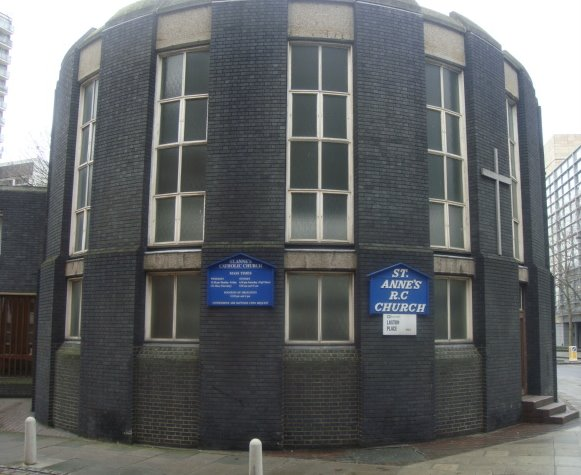 St Anne's Church A small modern catholic church which lies at the junction of Longford Street and Laxton Place. The church is situated on the southern edge of the Regent's Park estate and immediately to the north of massive redevelopment by British Land.